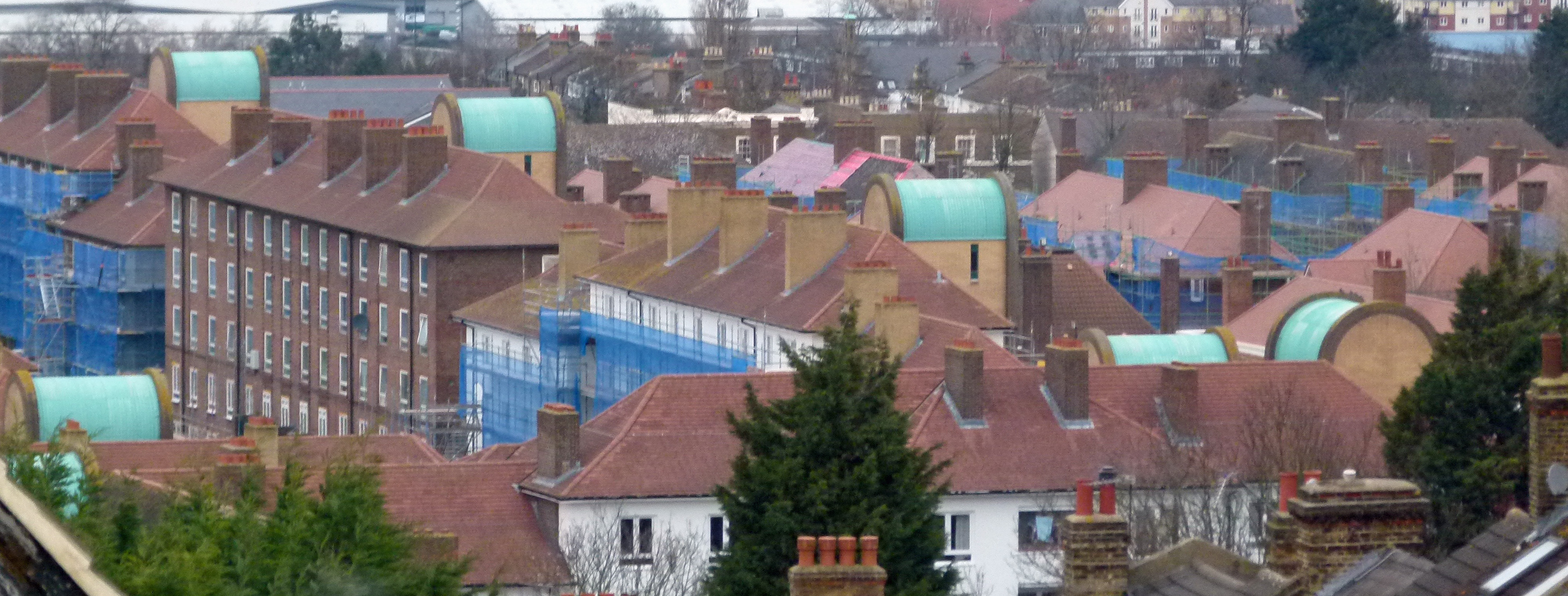 View from Eglinton Hill of the Barnfield Estate under renovation, Woolwich, southeast London, UK.